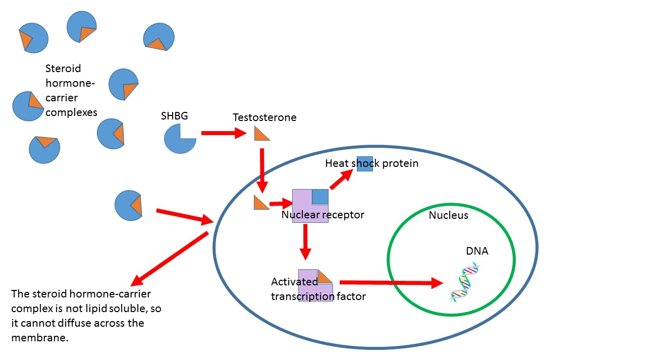 This file shows that hormones bound by carrier proteins are unable to act on their target cells.